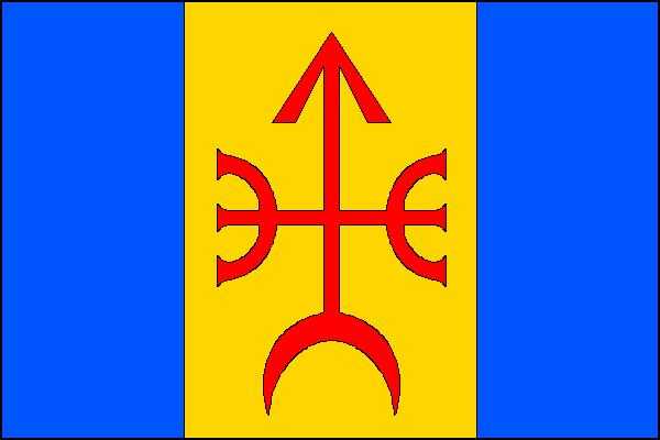 Boršice_u_Blatnice,_flag